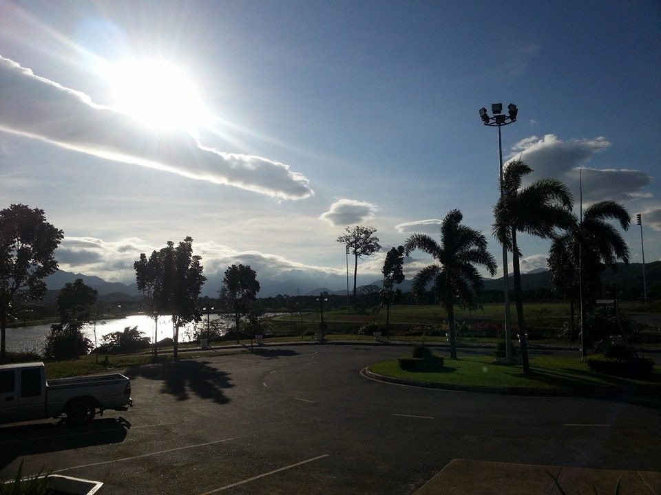 ลานจอดรถที่ศูนย์ฝึกกีฬาแห่งชาติ มวกเหล็กกับบรรยากาศดีๆ